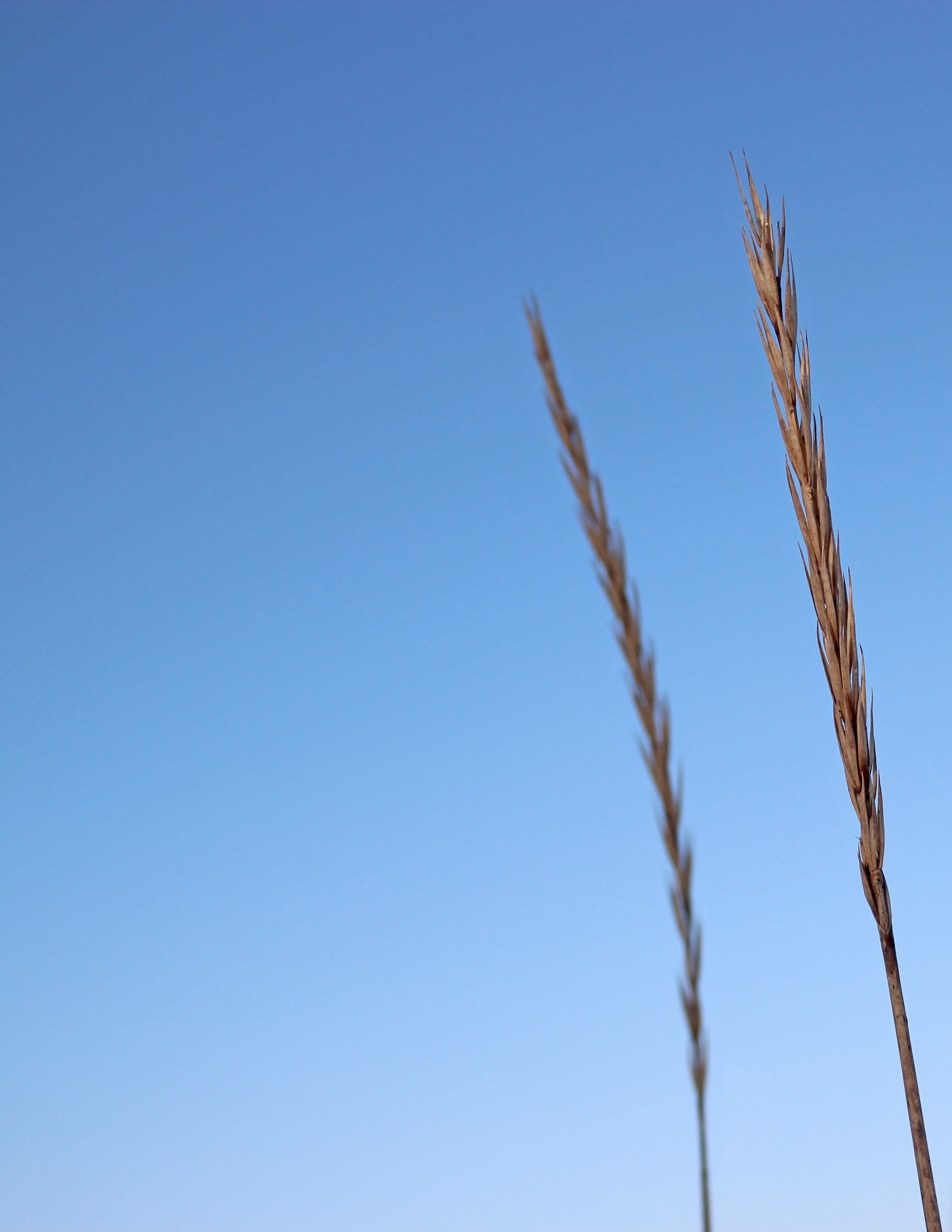 European Marram Grass (Ammophila arenaria) in Sweden, February 2012.